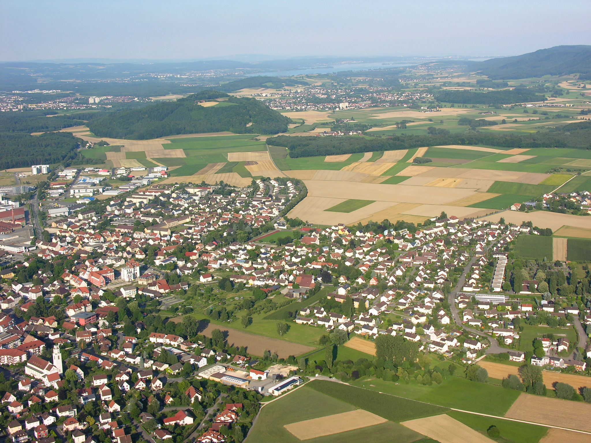 Aerial View of Gottmadingen